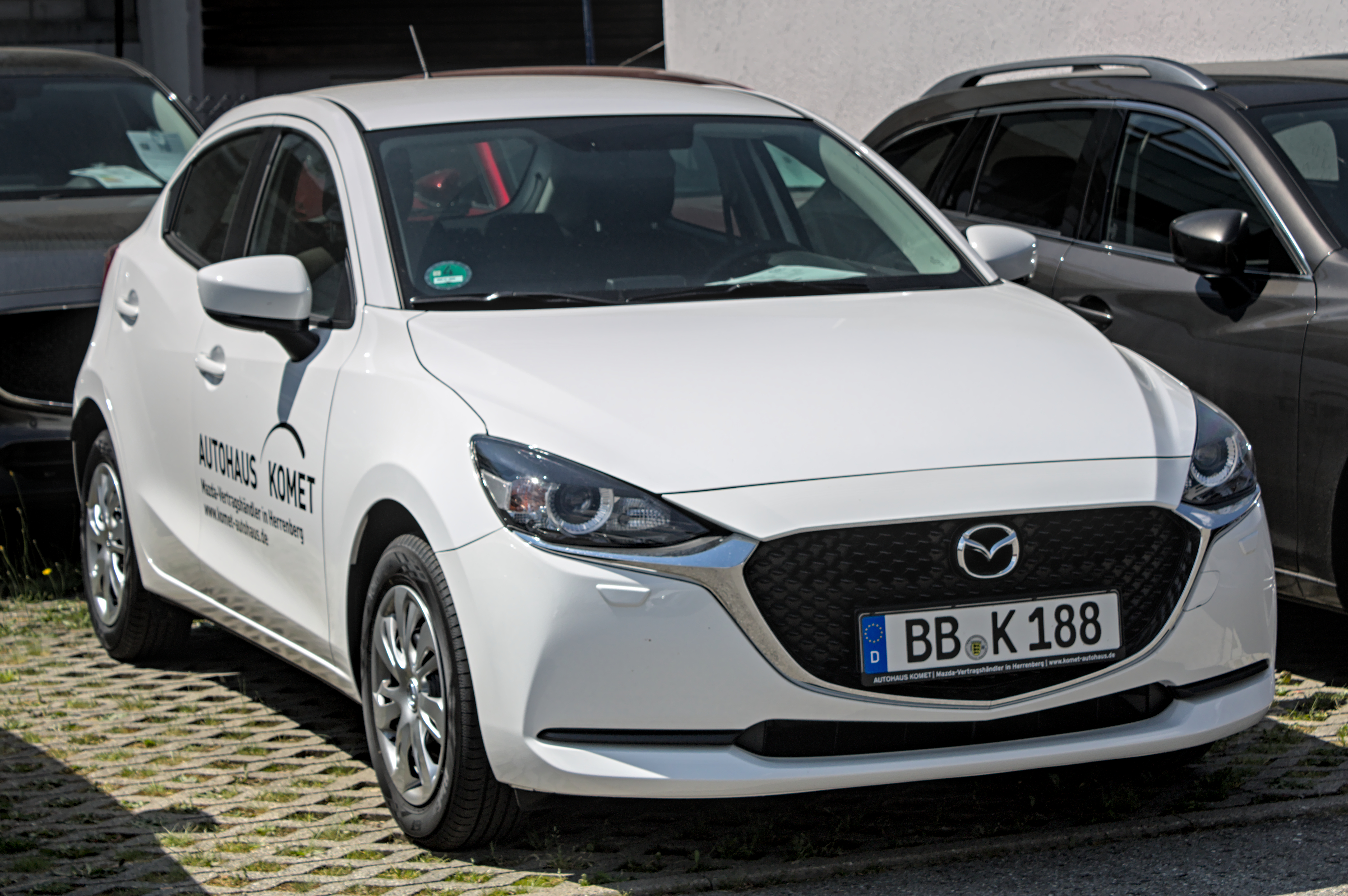 Mazda2_(DJ) in Herrenberg